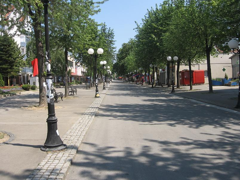 (foto: Goran Necin)